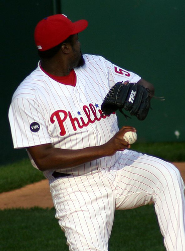 Antonio Alfonseca 20:53, 16 November 2007 . . Old man gnar . . 369×500 (99 KB)